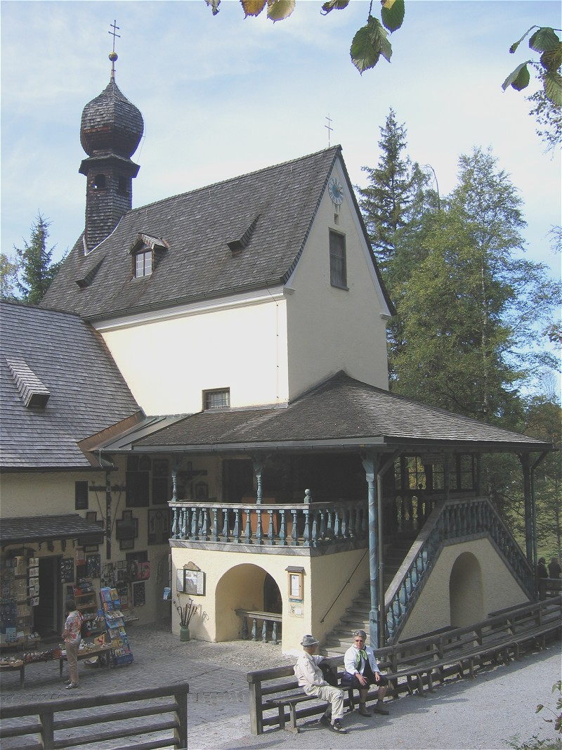 Birkenstein, Sanctuary of the Assumption facing south-east.